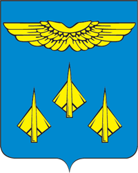 Zhukovsky (Moscow oblast), coat of arms